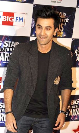 Indian actor Ranbir Kapoor at the 2011 BIG STAR Entertainment Awards